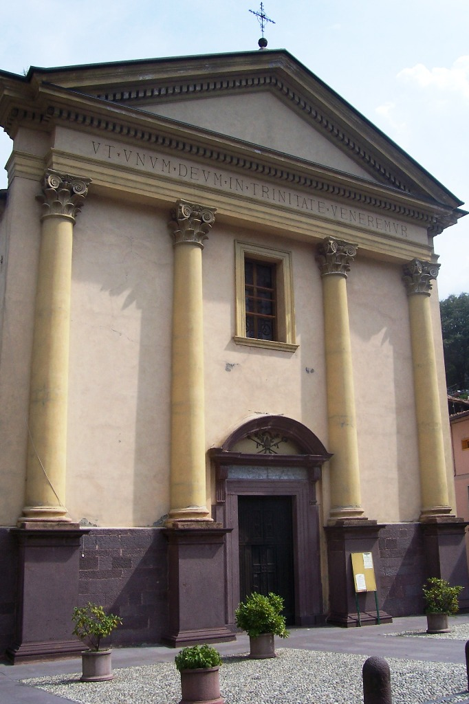 Parish church of St Ambrose. Gorzone, Darfo Boario Terme, Val Camonica